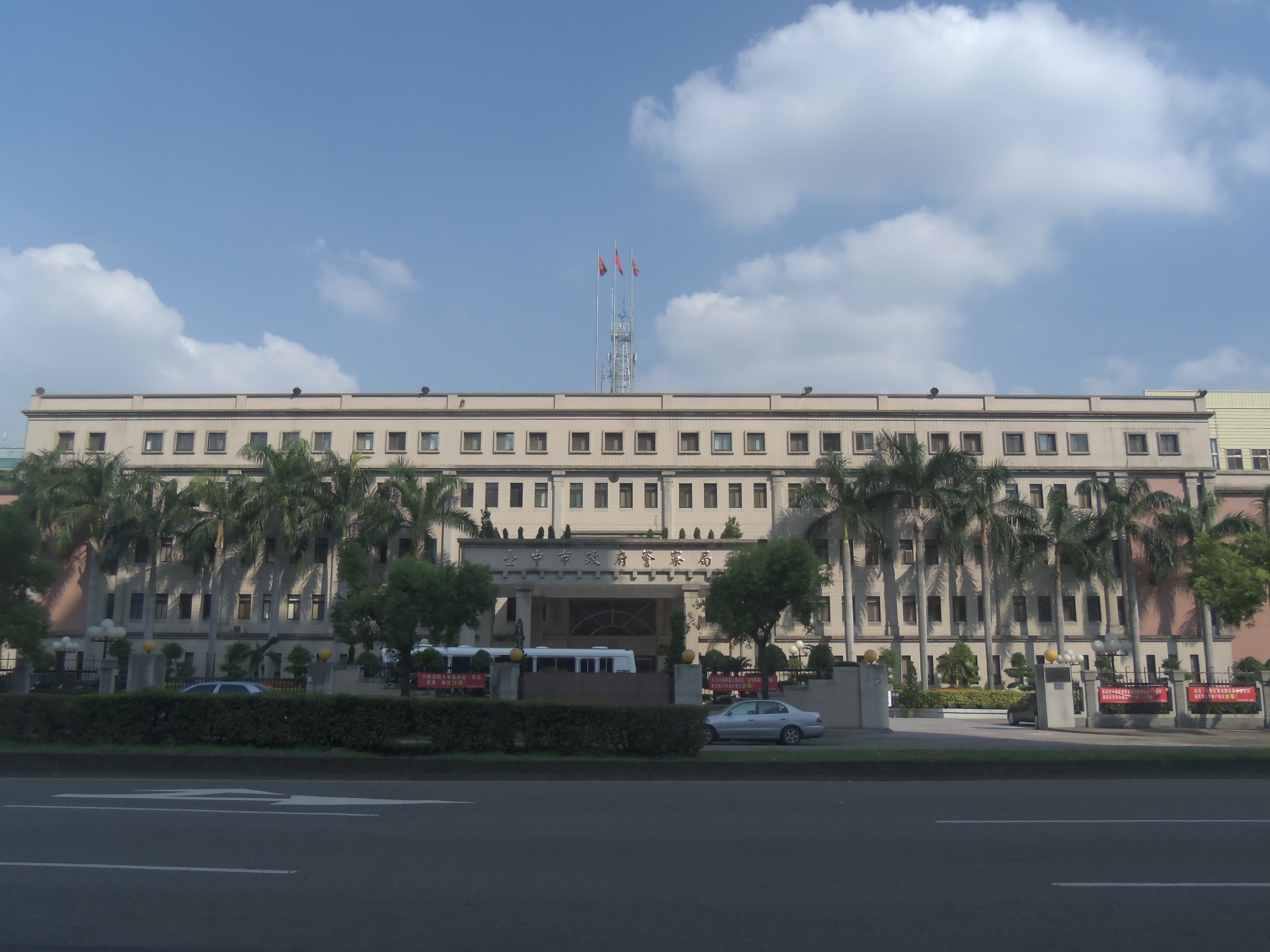 Former Taichung City Government Police Department building(June 1992-March 2020) 中文（台灣）: 舊臺中市政府警察局(1992年6月-2020年3月)，現為臺中市文心第二市政大樓。